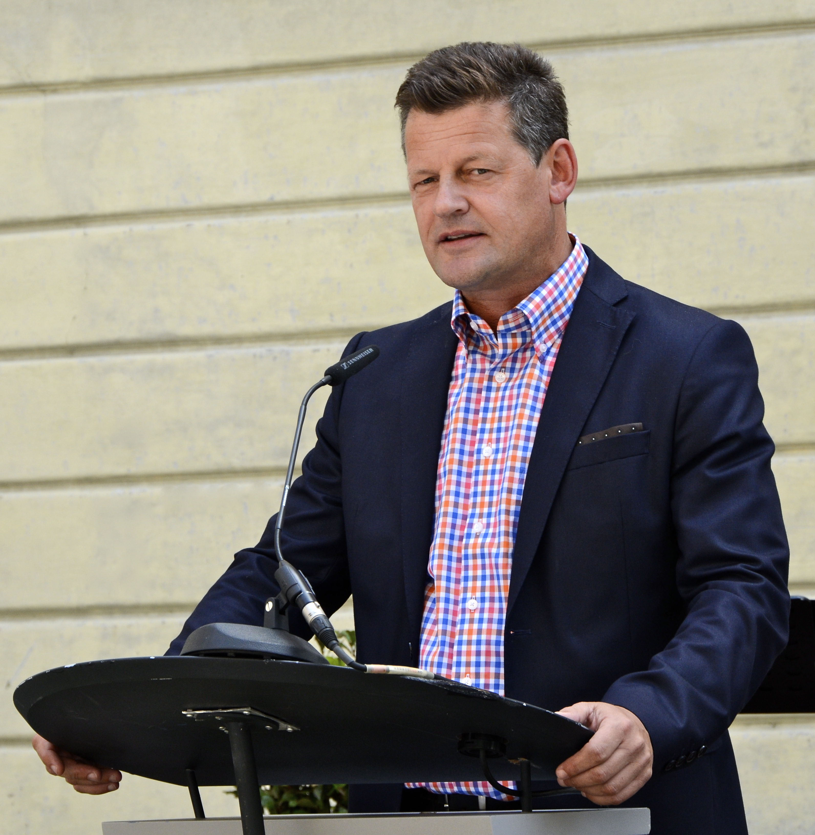 Mayor Christian Scheider (Freedom Party of Austria) during a speech at the Landhaushof, city of Klagenfurt, Carinthia, Austria, EU